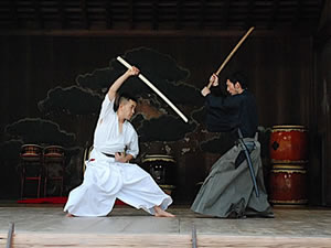 Template:Tenshinsho Jigen Ryu Demo at Yasukuni Shrine, Sept. 2010